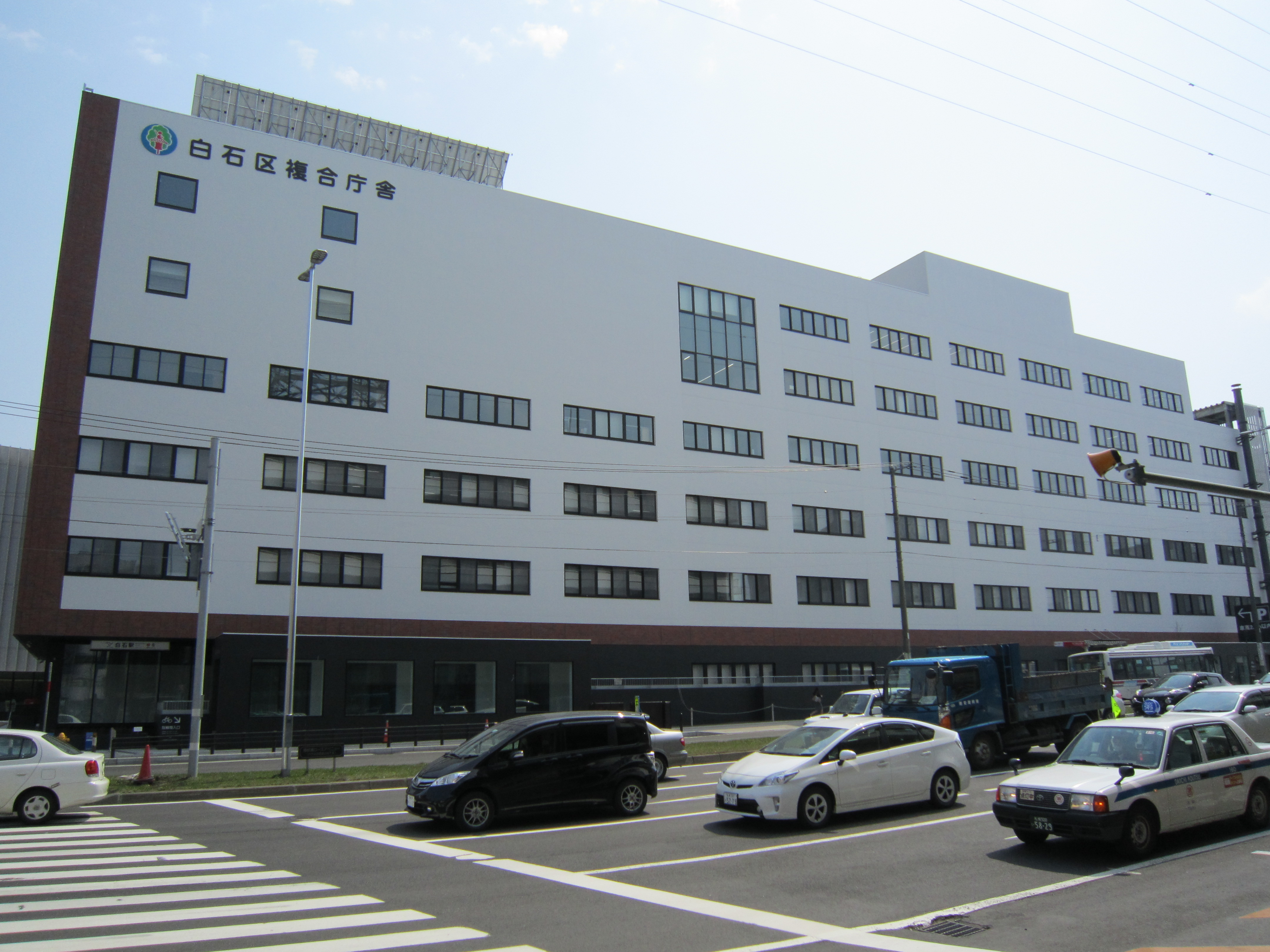 Shiroishi Ward Office Complex